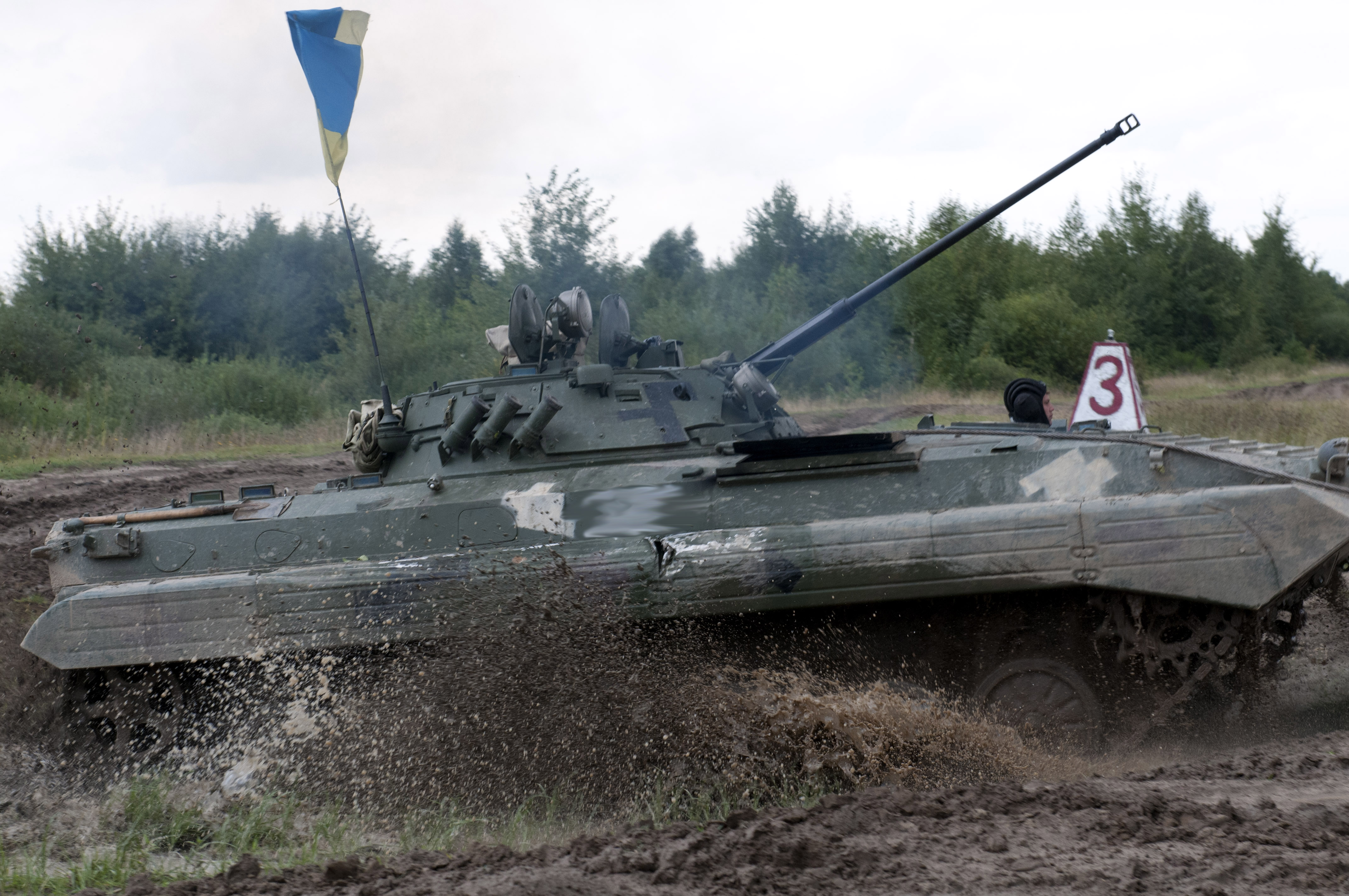 Ukrainian Soldiers from 1st Battalion, 93rd Mechanized Brigade maneuver a BMP-2 vehicle during a live-fire exercise, August 11, 2016 at the International Peacekeeping and Security Center as part of the Joint Multinational Training Group-Ukraine. The Ukrainian Soldiers are taking the lead on the live-fire while Soldiers from 6th Squadron, 8th Cavalry Regiment, 2nd Infantry Brigade Combat Team, 3rd Infantry Division ensure safety measures are in place. The Soldiers from 6-8 Cav are training Ukrainian Ground Forces and building a team of Ukrainian cadre who will ultimately assume that responsibility. (Photo by Staff Sgt. Elizabeth Tarr, U.S. Army Europe)